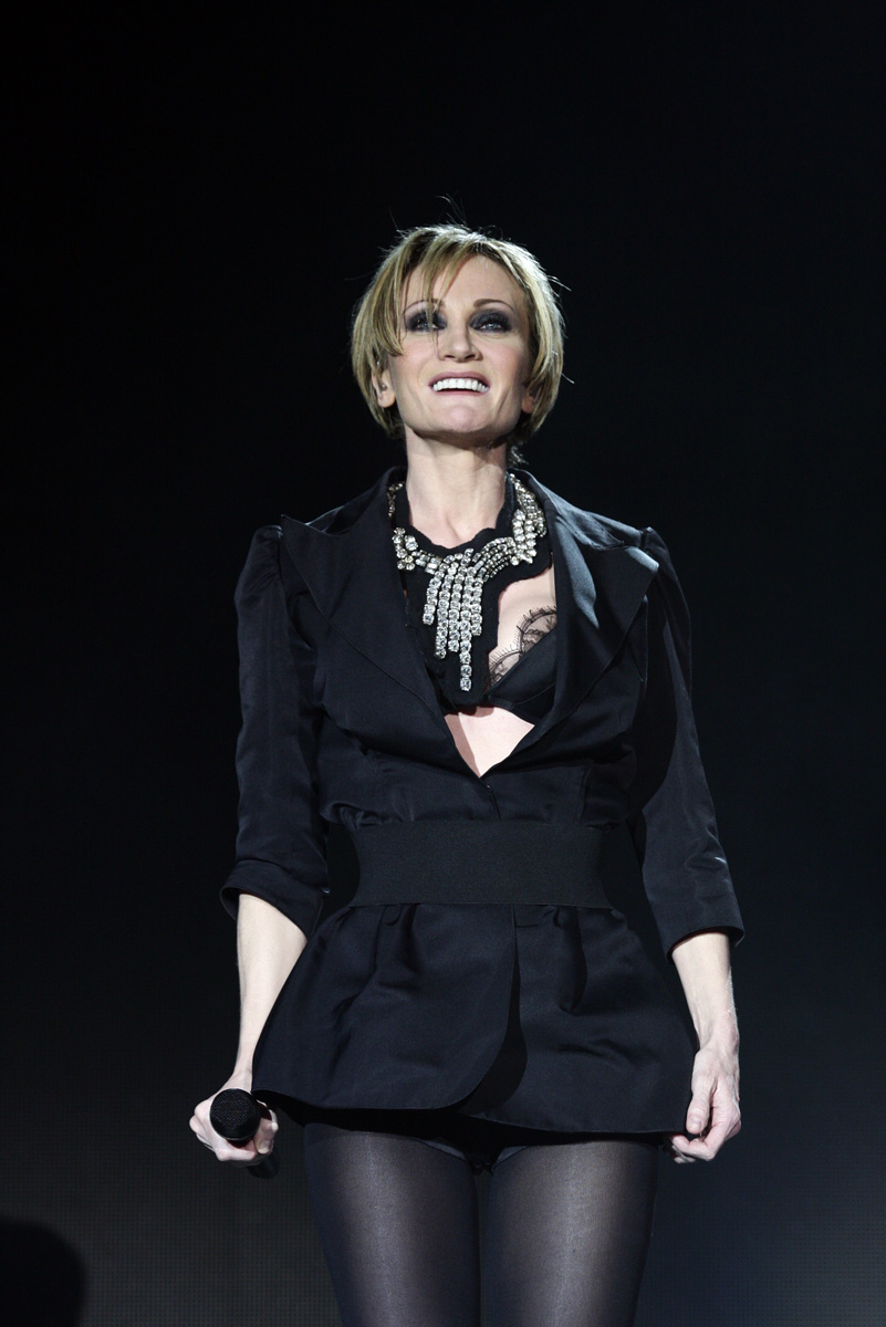 Patricia Kaas, Vilnius, Lithuania. 2009-04-24